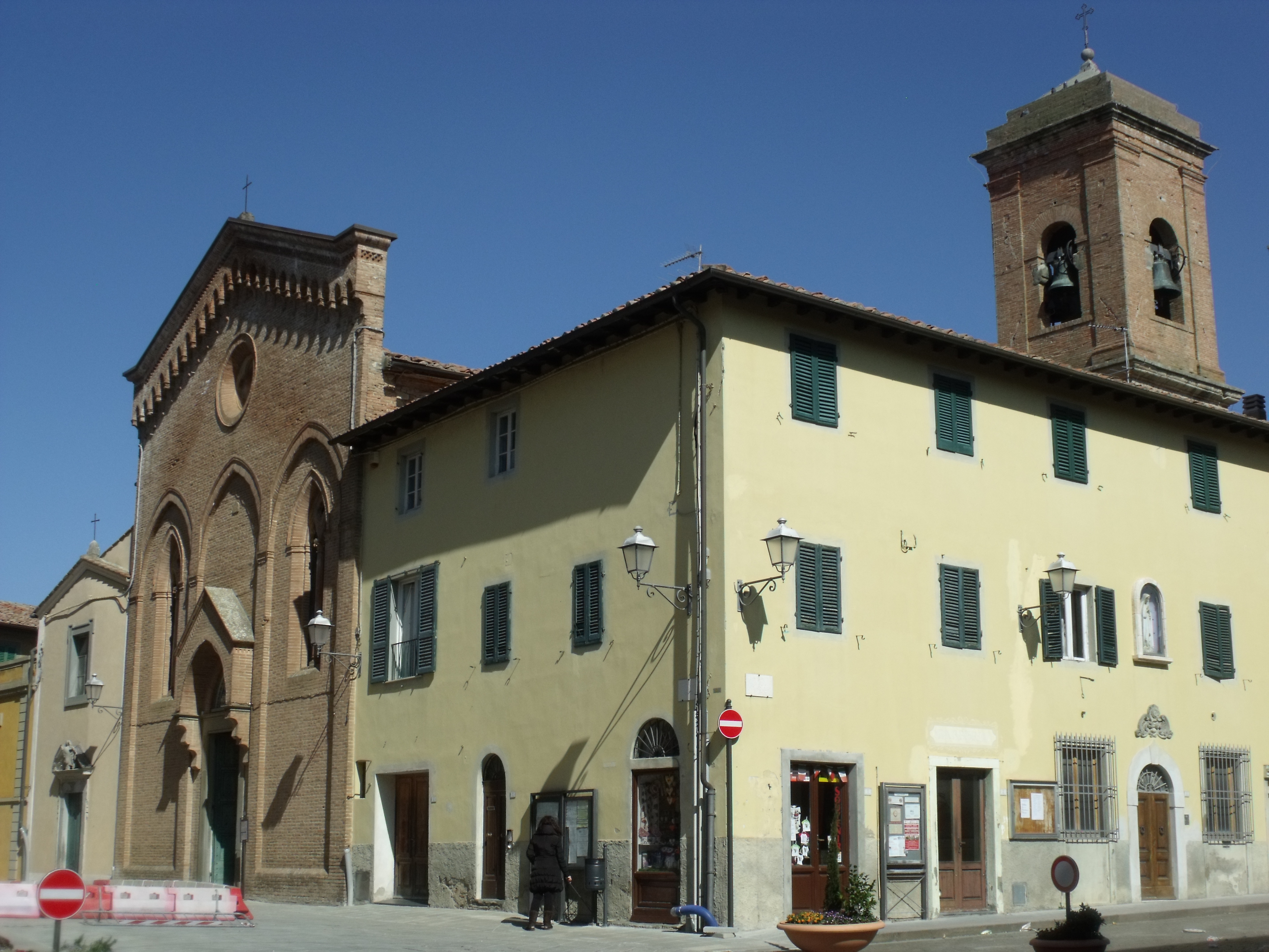 Church Santa Maria Assunta e San Leonardo in Lari, Casciana Terme Lari, Province of Pisa, Tuscany, Italy